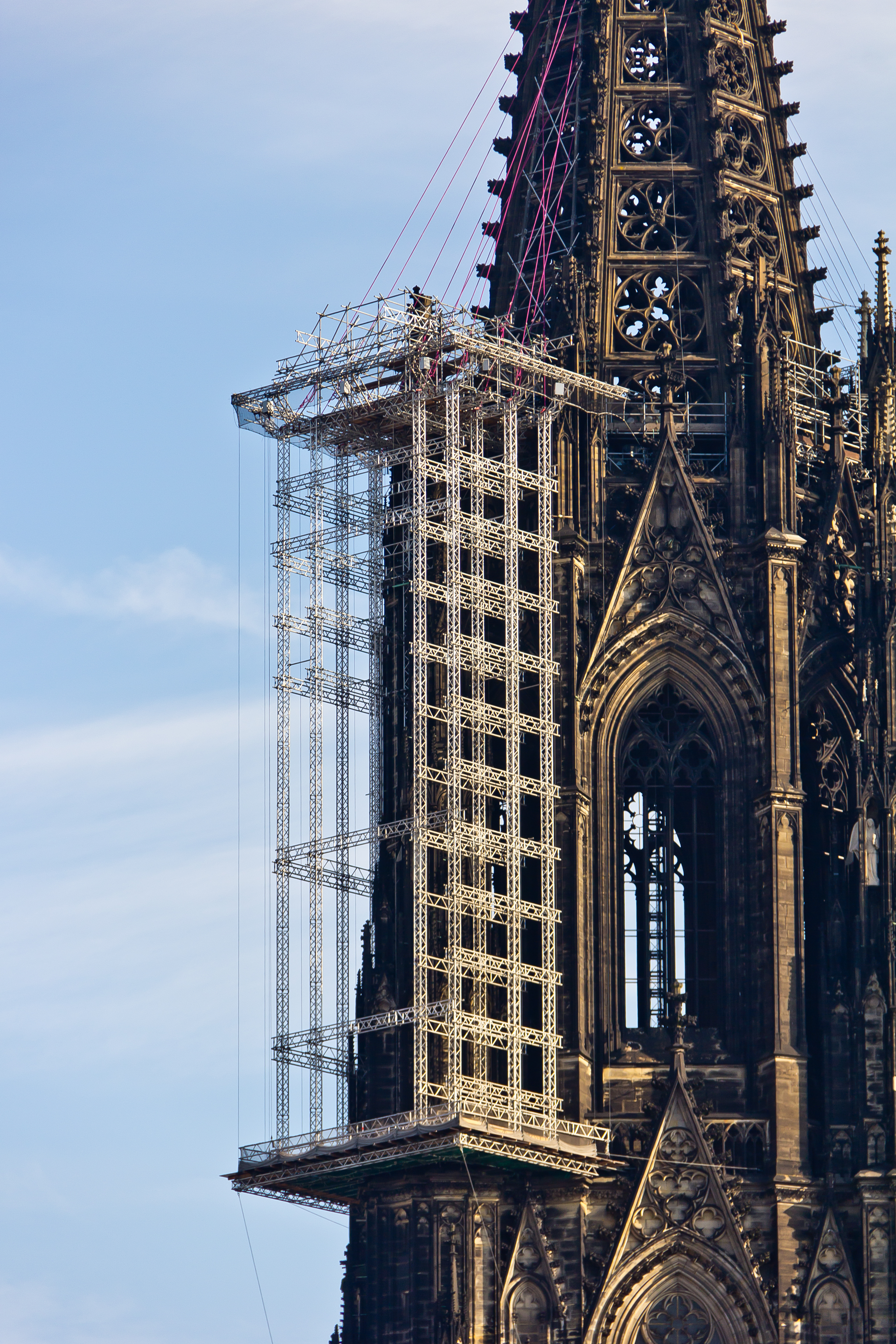 Cologne Cathedral: Construction of a new suspended scaffold on the northern side of the northern steeple.